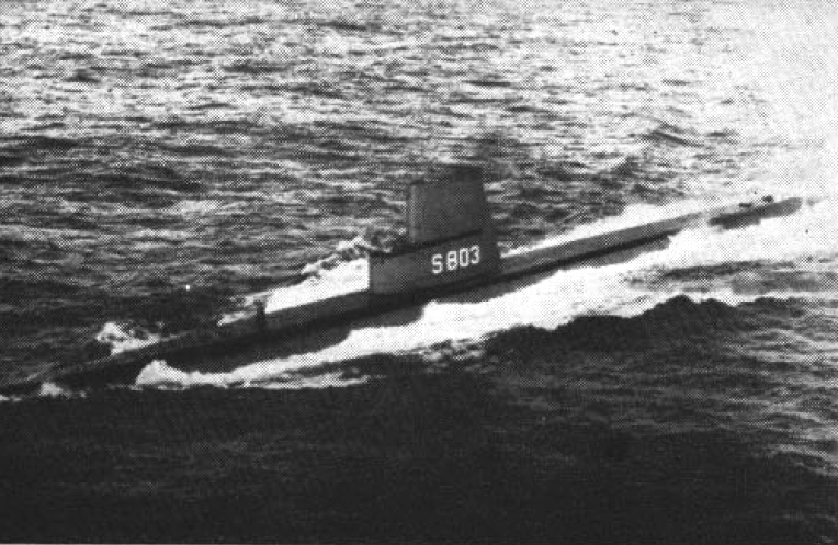 The Dutch submarine Hr.Ms. Zeeleeuw (S803) underway, circa 1959. Zeeleeuw was the former U.S. Navy submarine USS Hawkbill (SS-366). Brought out of reserve in 1952, Hawkbill was given a GUPPY IB conversion and loaned to the Netherlands under the Military Assistance Program on 21 April 1953. She was commissioned in the Royal Netherlands Navy as Hr.Ms. Zeeleeuw (S803), the first Dutch naval ship to be named for the sealion. Zeeleeuw reached Rotterdam 11 June, in time to participate successfully in NATO summer exercises, 'beating' the Royal Navy as well as the USN. On 24 November 1970 Zeeleeuw was sold for scrap.